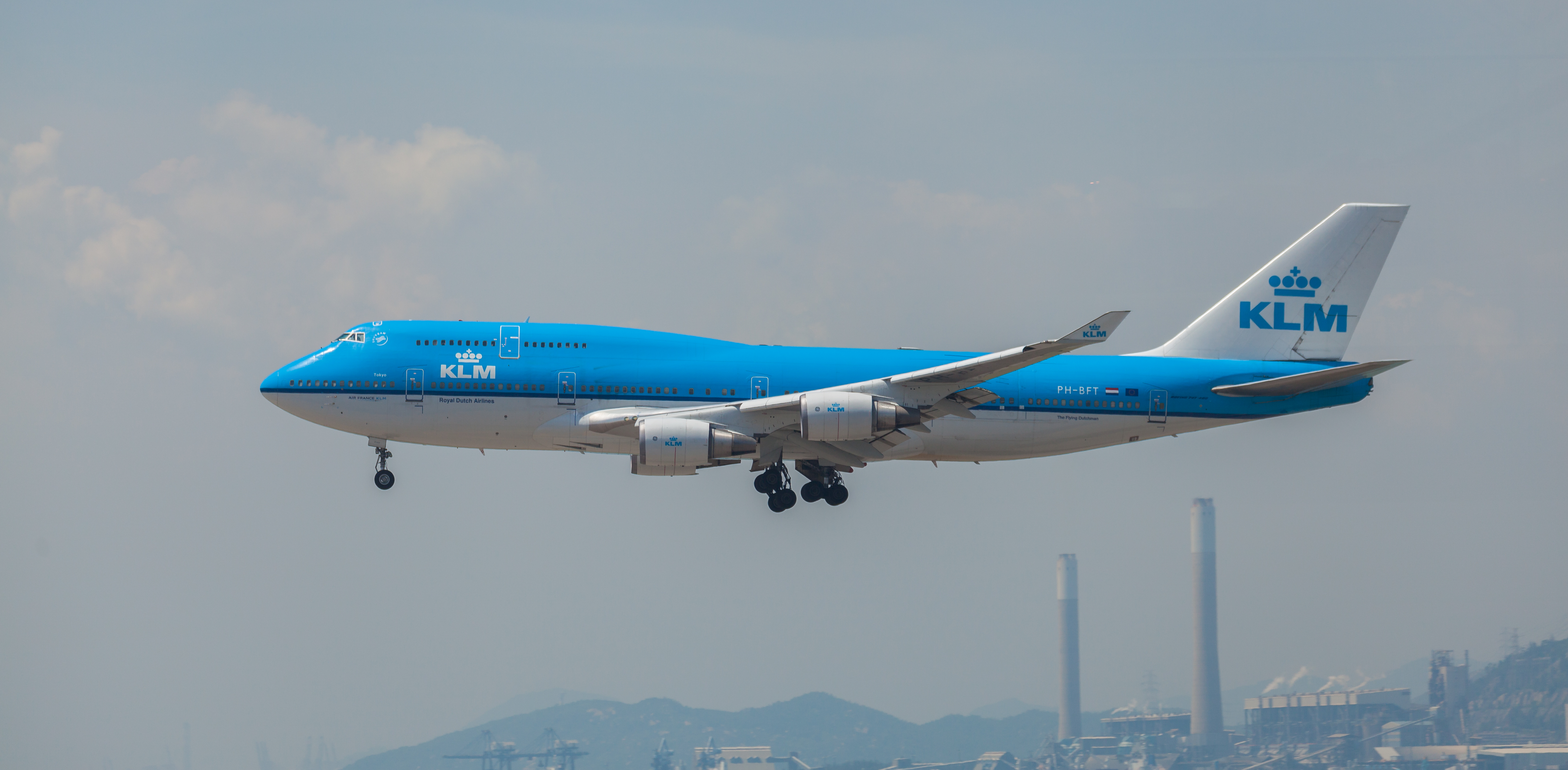 Hong Kong Airport